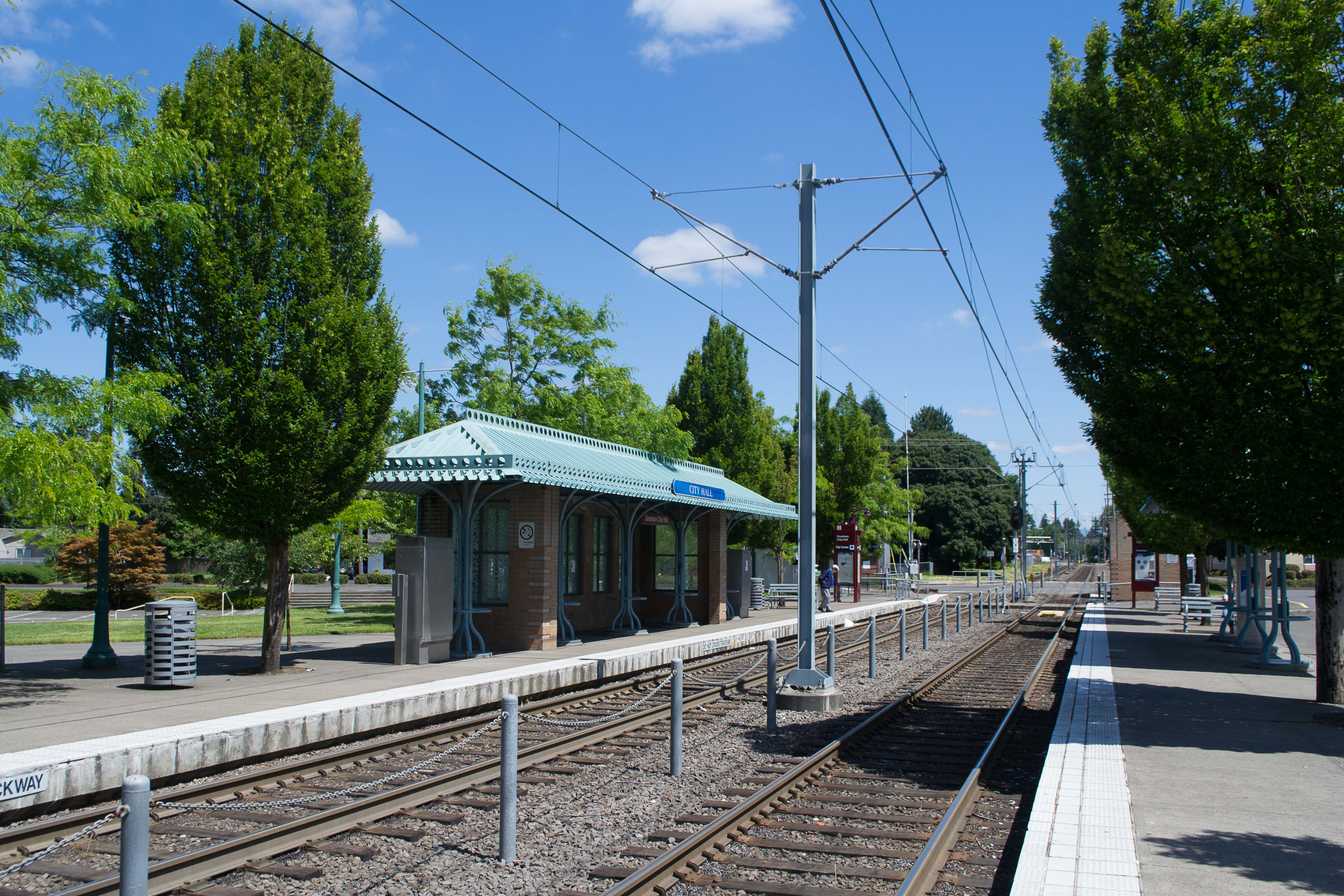 Gresham's City Hall MAX Station in 2013, before a 2017 renovation.